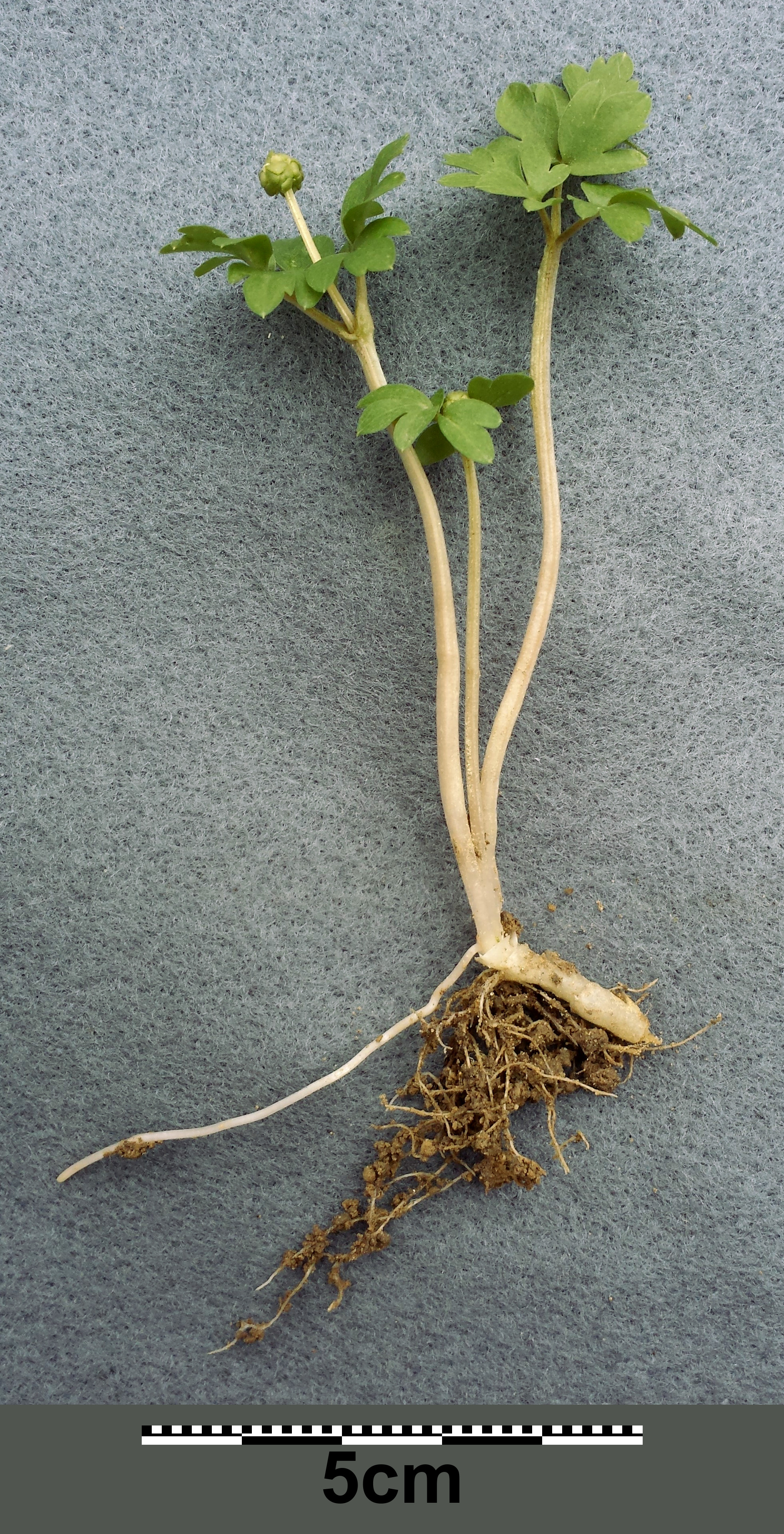 Whole plant Taxonym: Adoxa moschatellina ss Fischer et al. EfÖLS 2008 ISBN 978-3-85474-187-9 (det. M. A. Fischer) Location: Kreuttal, district Mistelbach, Lower Austria - ca. 200 m a.s.l. Habitat: floodplain forest